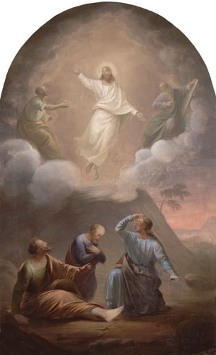 The Transfiguration of Jesus, altarpiece painted in 1839 as a commission from Arvid Adolf Etholén, the eighth Russian governor of Alaska, for the Sitka Lutheran Church in Sitka Alaska. The painting is on display in the current church